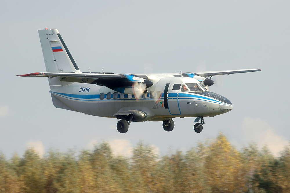 Russian Let L-410MU at KubinkaAuthor: Dmitry A. Mottlemail: dm_at_mottl.ru